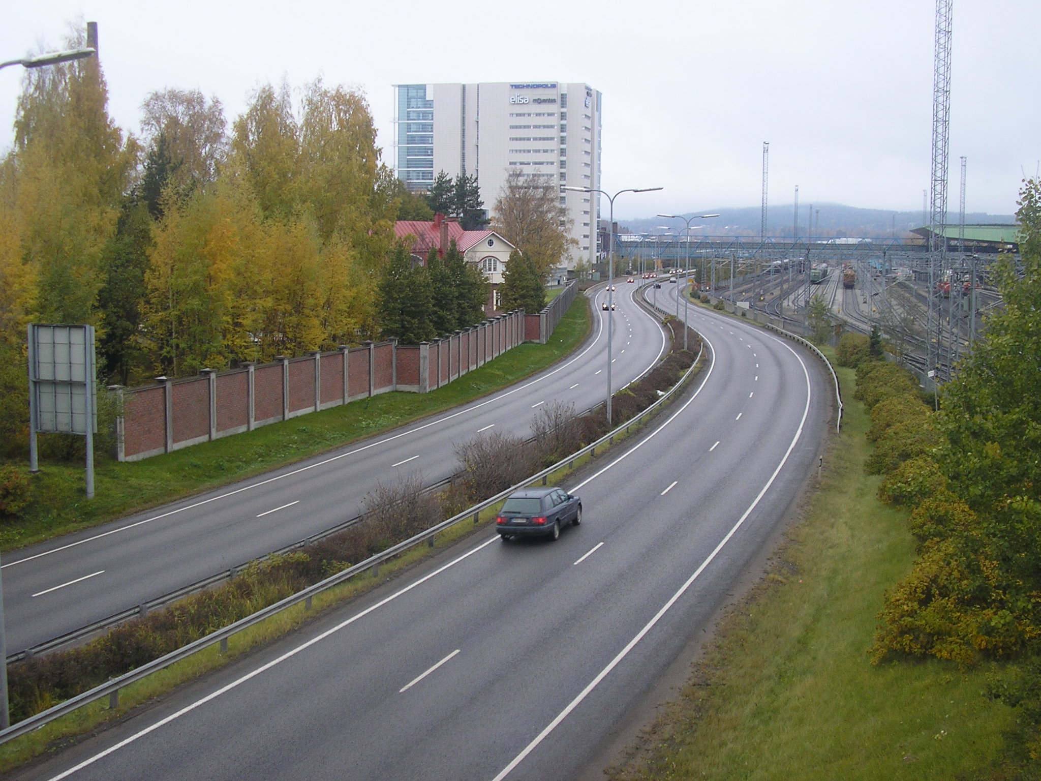 Main roads 9 (E63), 18, 23 ("Rantaväylä") in Lutakko, Jyväskylä, Finland